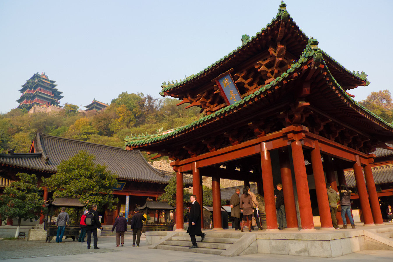 25 Nov., pm: Tianfeigong Temple